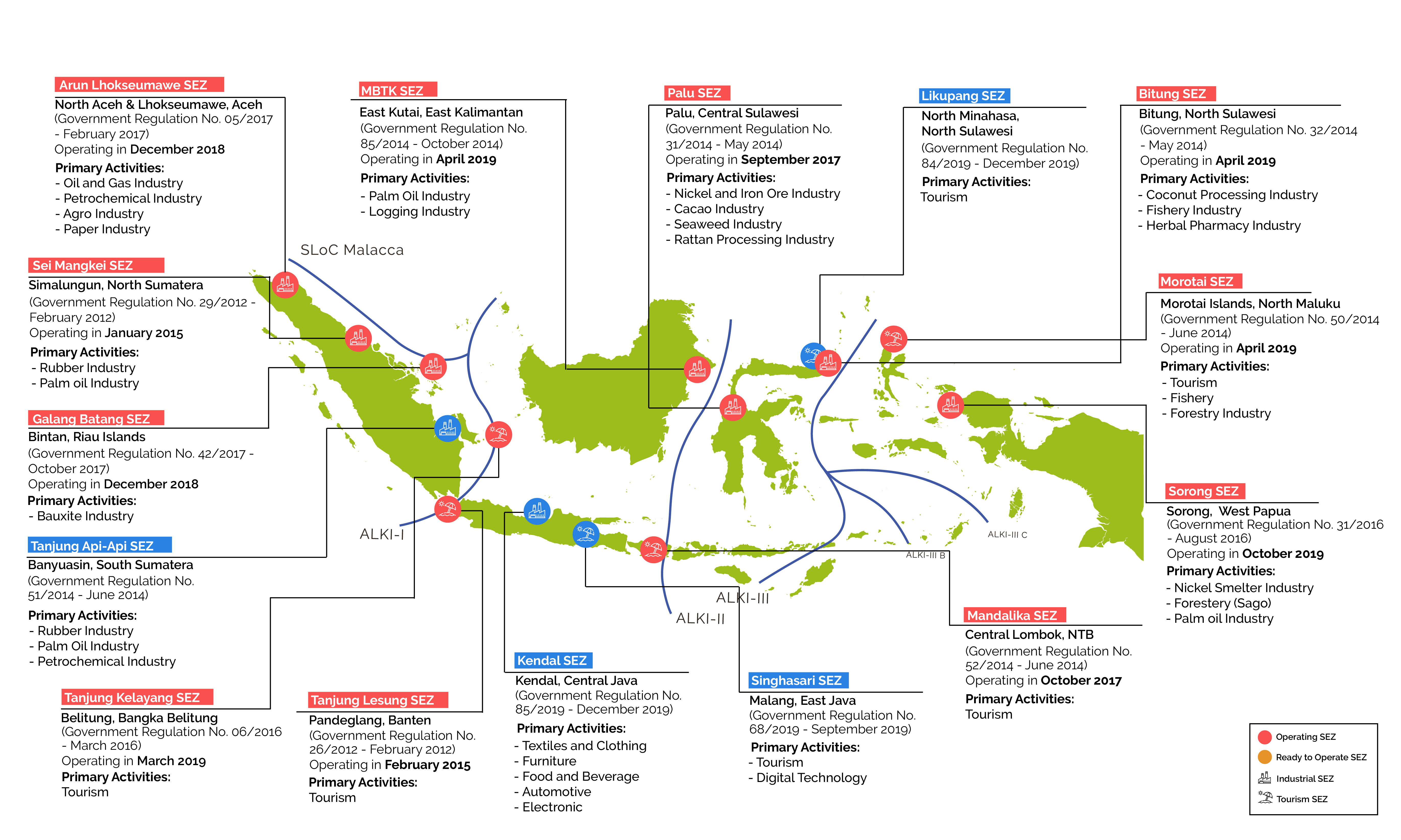 Indonesia Special Economic Zone Map Distribution